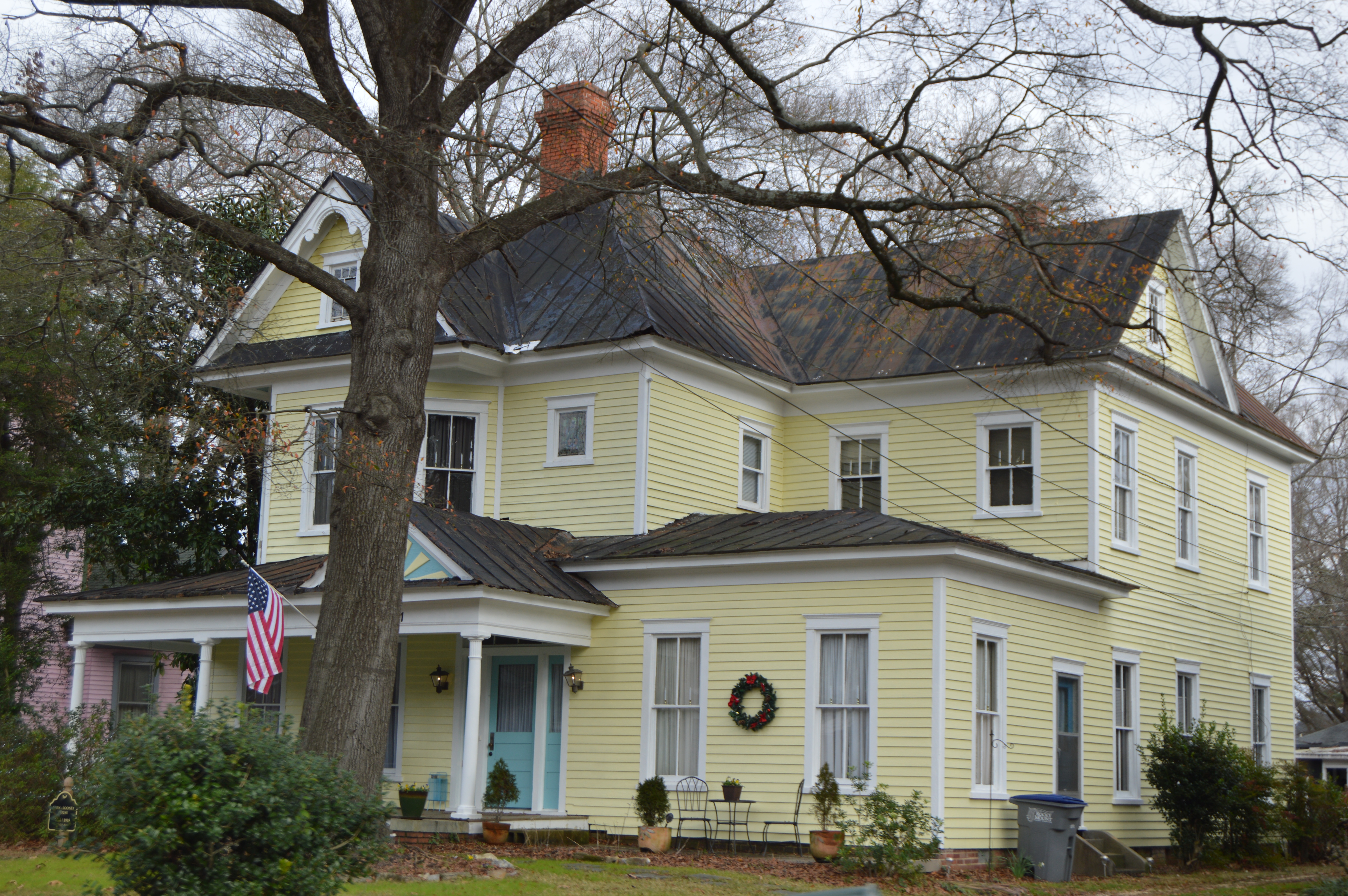 Front and southern side of the house located at 521 Falls Road (North Carolina Highway 43) in Rocky Mount, North Carolina, United States. It and its neighbors are part of the Falls Road Historic District, a historic district that is listed on the National Register of Historic Places.